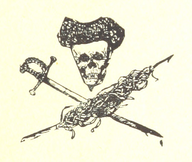 Image taken from: Title: "España negra. [With illustrations by the author. Translated by D. de Regoyos.]", "Single Works" Author: VERHAEREN, Émile. Contributor: REGOYOS, Darío de. Shelfmark: "British Library HMNTS 10161.f.23." Page: 13 Place of Publishing: Barcelona Date of Publishing: 1899 Issuance: monographic Identifier: 003776797 Explore: Find this item in the British Library catalogue, 'Explore'. Download the PDF for this book (volume: 0) Image found on book scan 13 (NB not necessarily a page number) Download the OCR-derived text for this volume: (plain text) or (json) Click here to see all the illustrations in this book and click here to browse other illustrations published in books in the same year. Order a higher quality version from here.